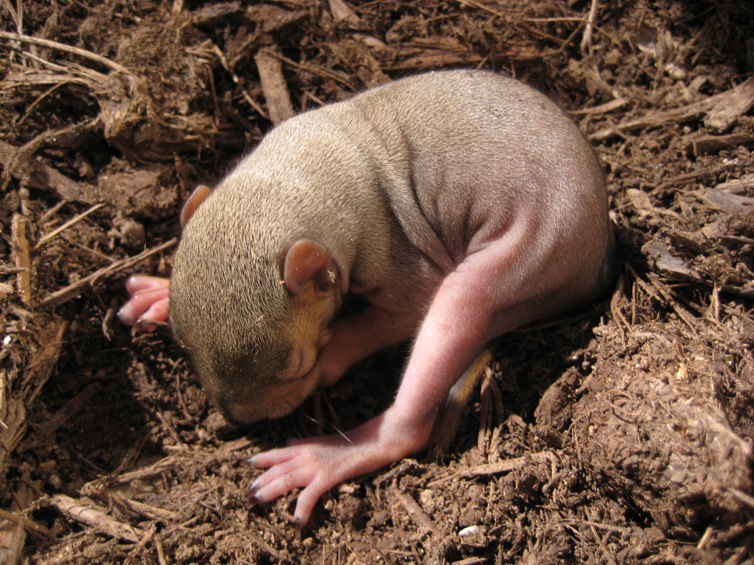 Sciurus niger baby